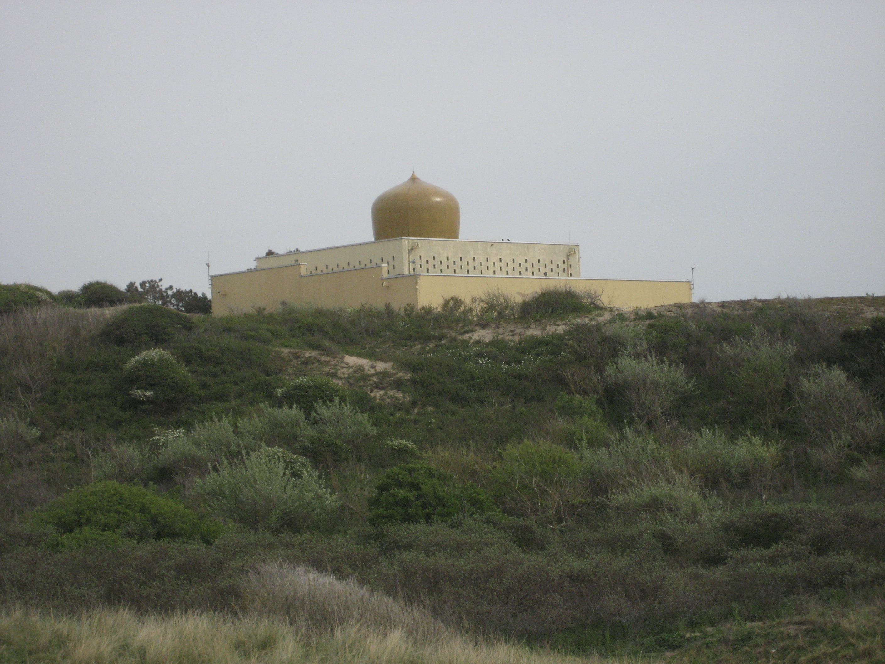 Universel Murad Hassil, temple of the International Sufi Movement, in Katwijk (The Netherlands). Architect: Sam van Embden